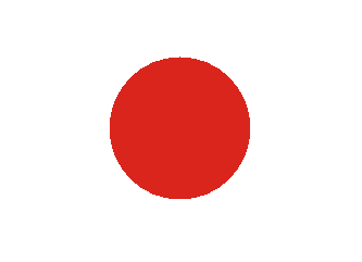 Union Army, I Corps - Army of the Potomac, 1st Division Badge